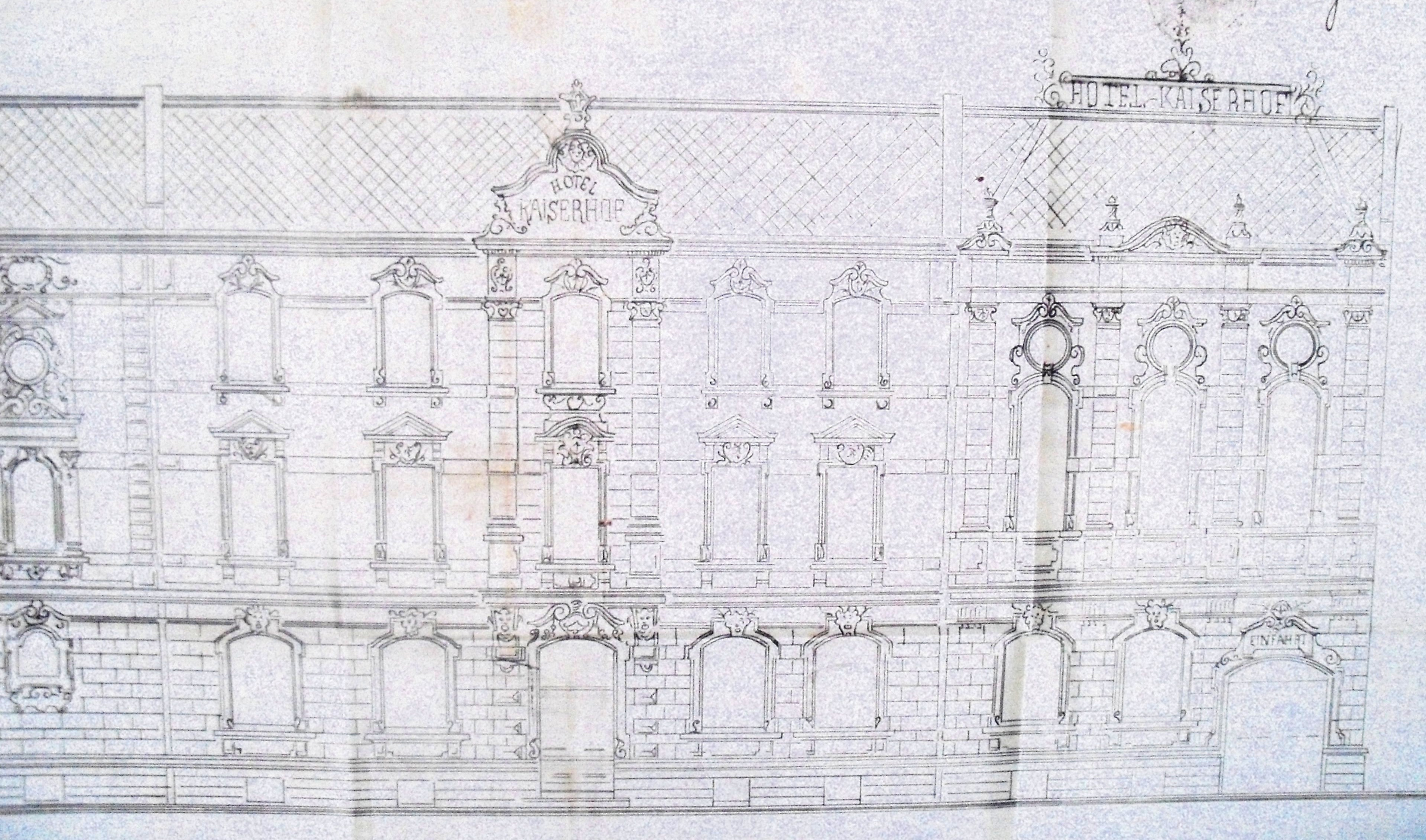 Hotel Kaiserhof in Katowice (Poland)